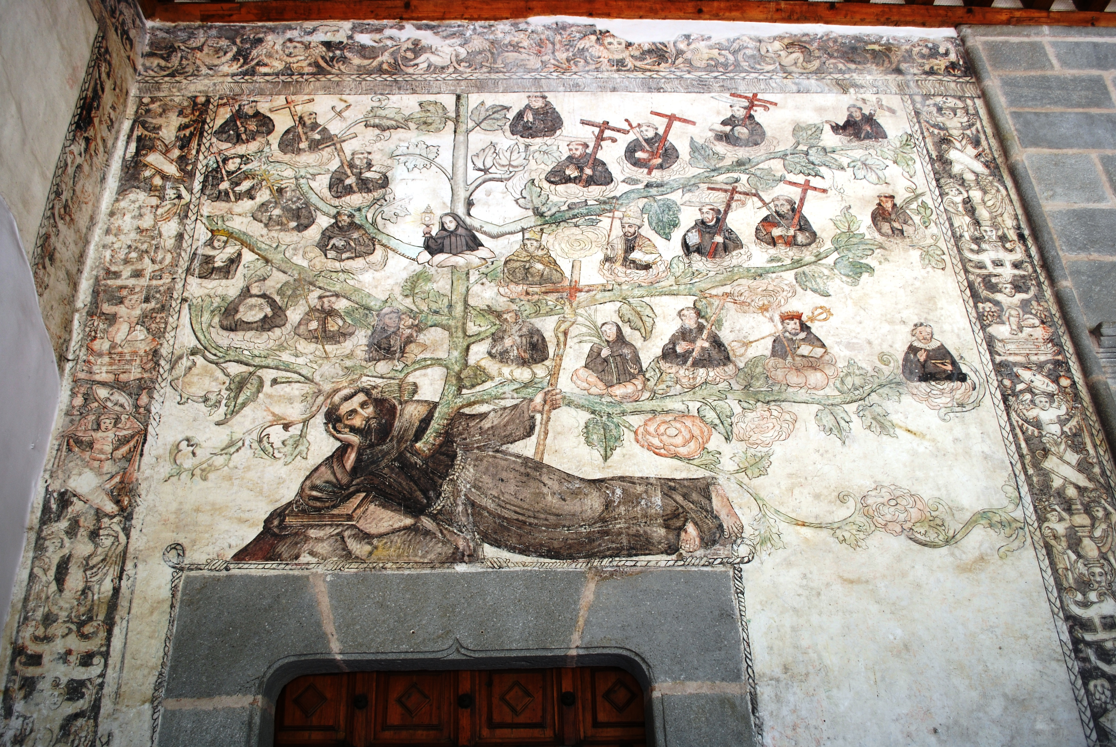 Mural depicting the genealogy of the Franciscan order over the entrance to the Viceregal Museum in Zinacantepec, Mexico State. Done in 16th century, author unknown